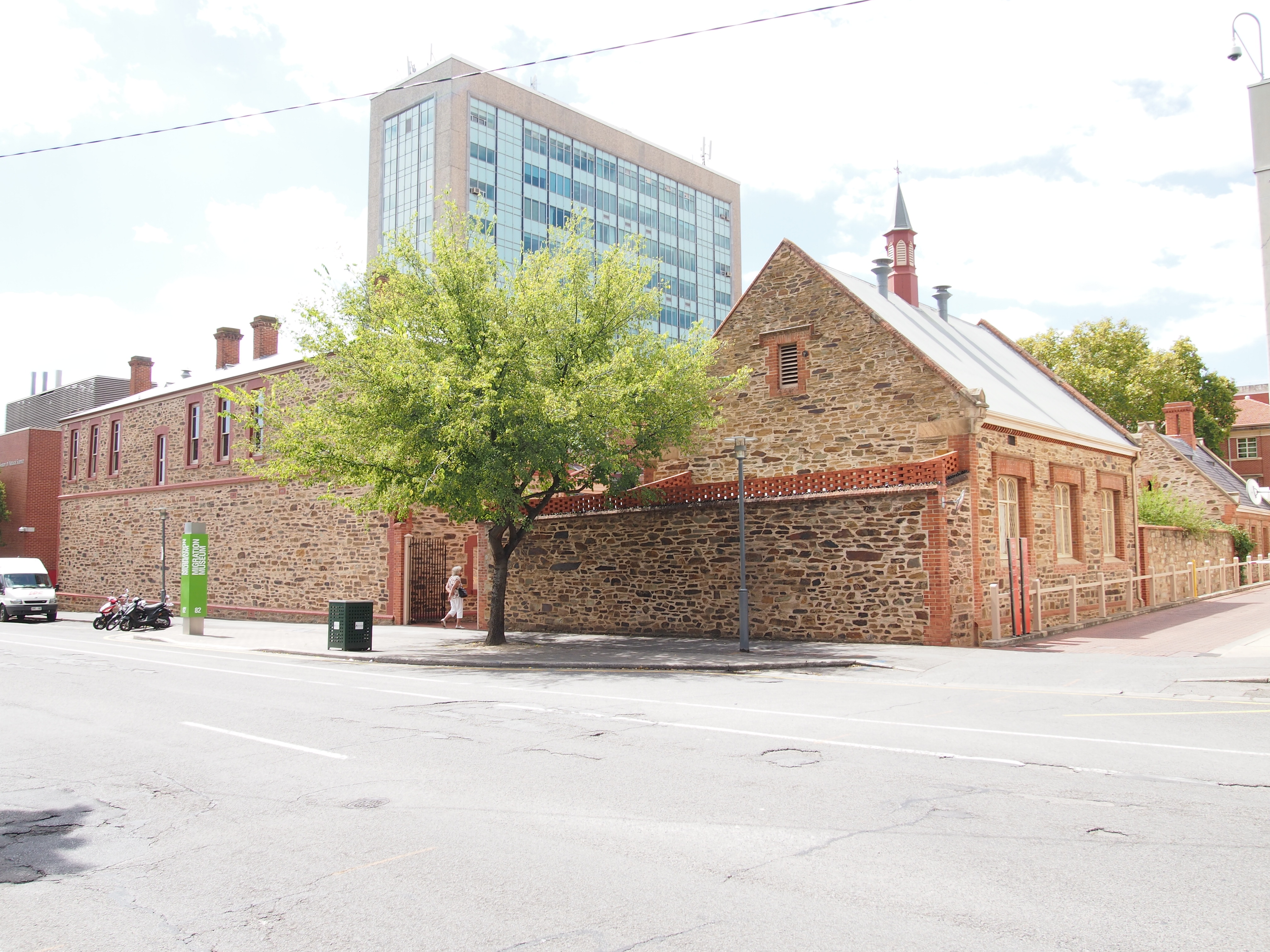 The Migration Museum, Adelaide is housed in a complex of early colonial bluestone buildings set around a courtyard, off Kintore Avenue. The two-storey building on the left was part of the lying-in department; that to its right was the chapel and the smaller one behind, with a twin chimney, was a pair of store rooms; all associated with the Destitute Asylum. Original filename = P3121359.JPG